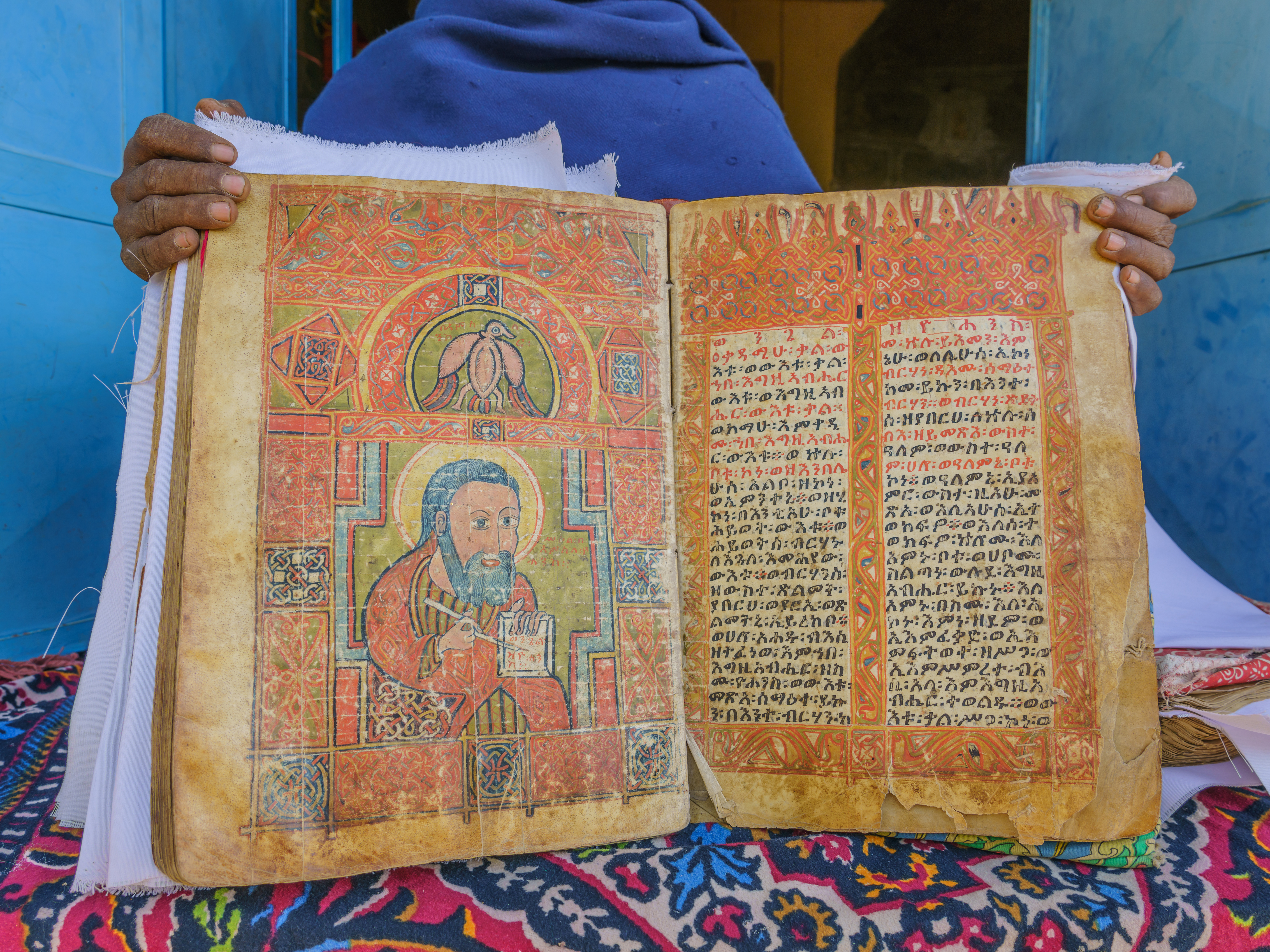 Abba Pentalewon Monastery in Aksum, Tigray Region, Ethiopia